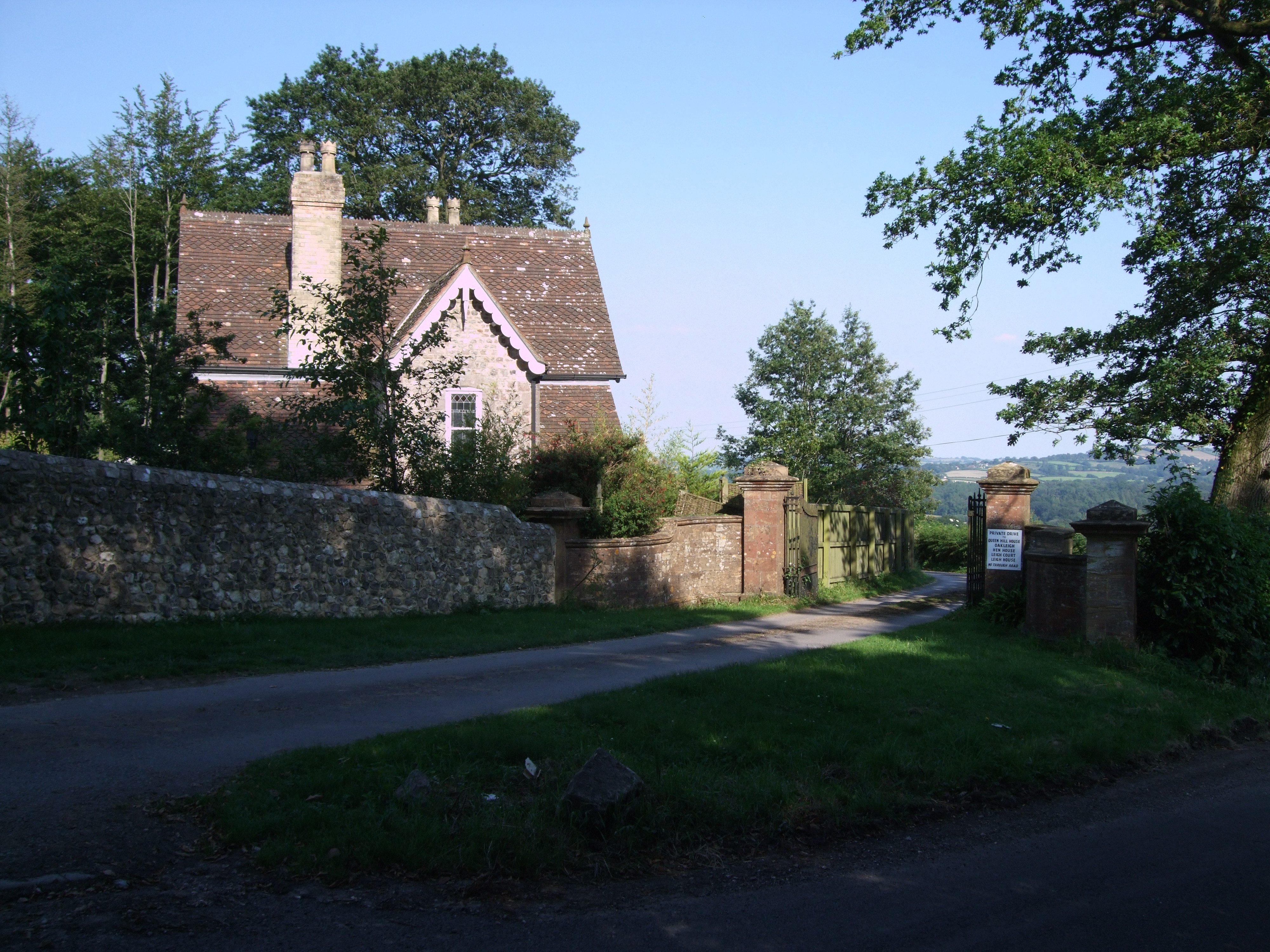 Entrance to Leigh House, near Forton